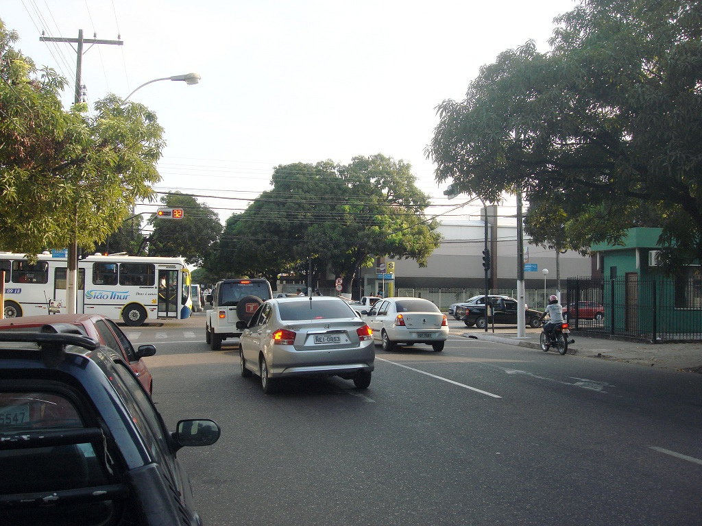 Leopoldo Machado Street, Macapá City, Amapá State, Brazil.